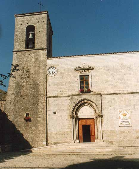 Church at Pescasseroli, Italy, own work